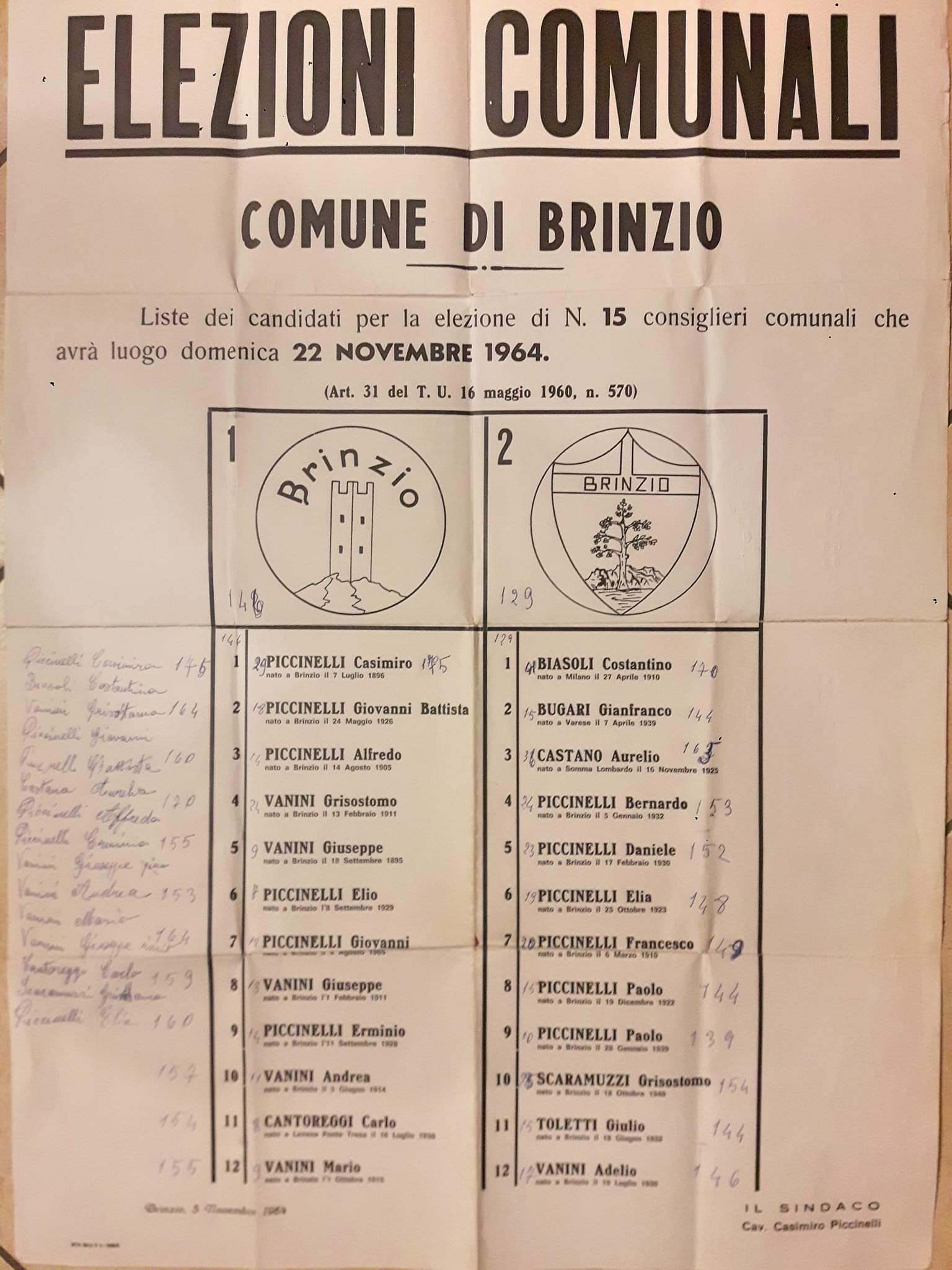 Manifesto elezioni comunali Brinzio 1964